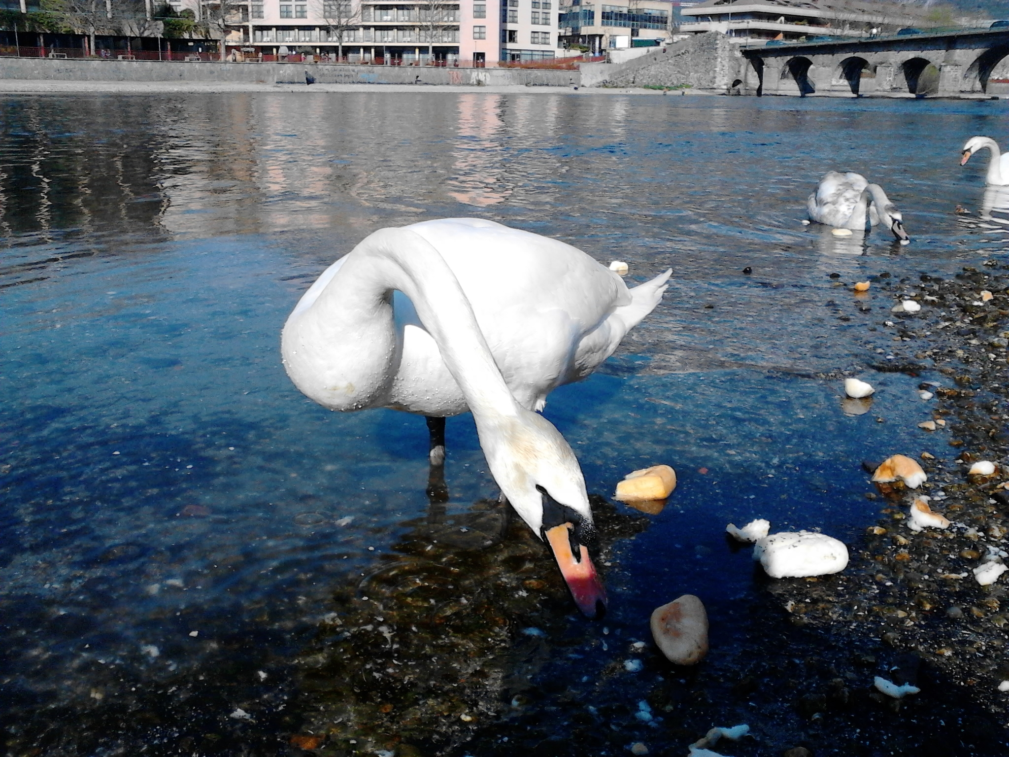 Cygnus in Malgrate ITALY